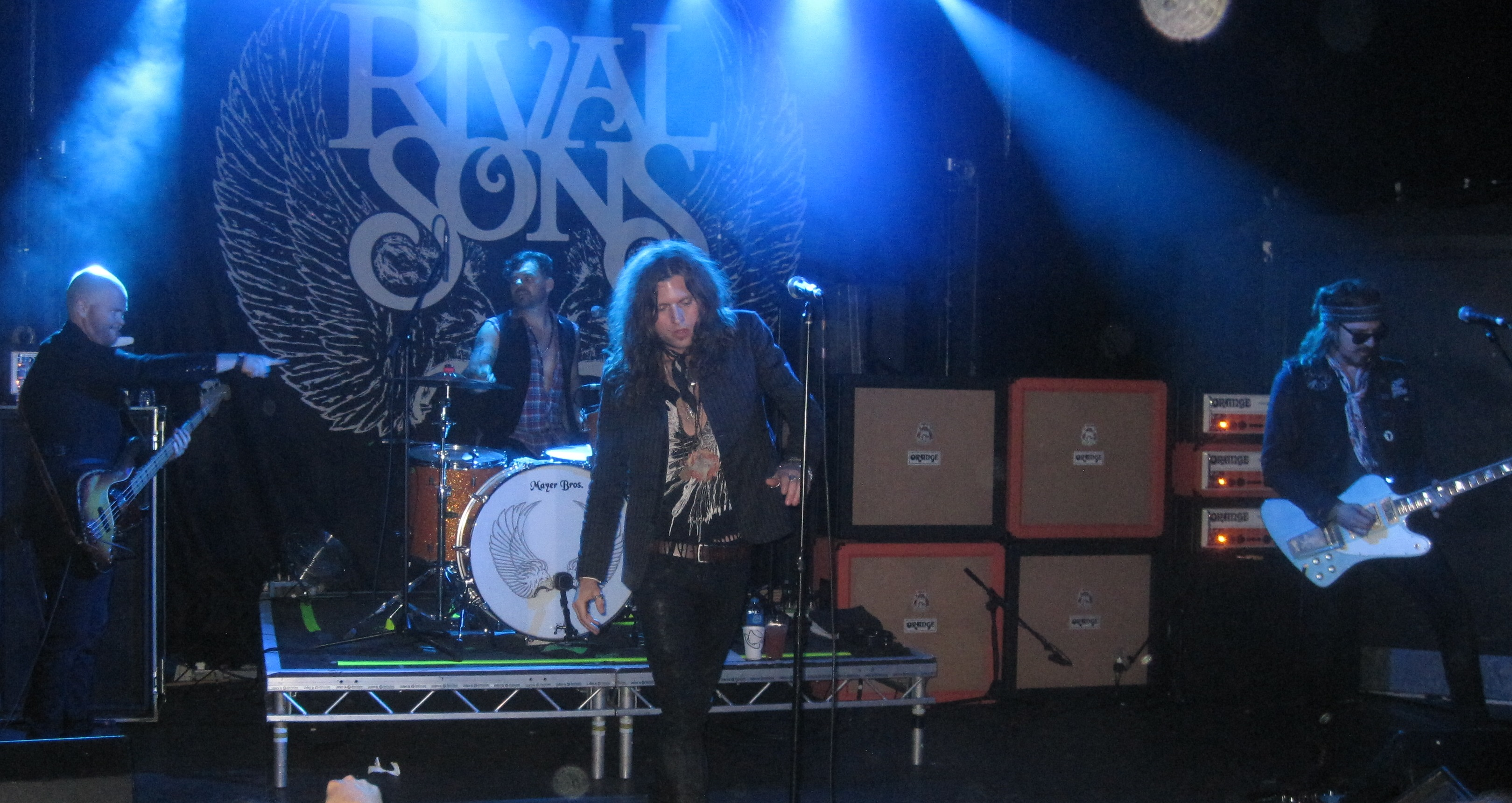 Rival Sons live at the Cambridge Junction, 16th April 2013